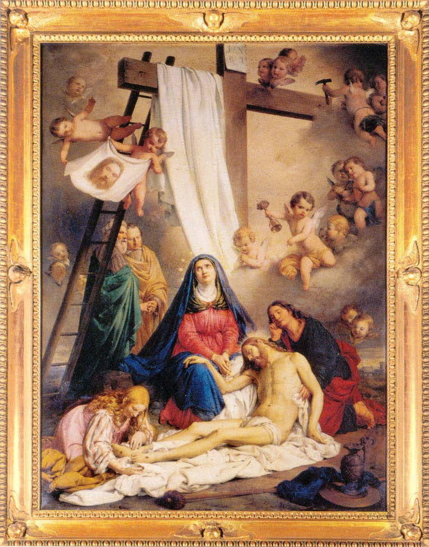 The Deposition